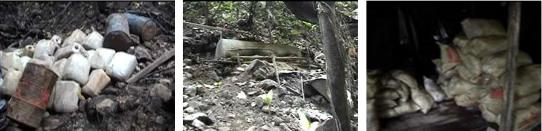 Drug belonging to FARC guerrillas found in the Caguan Demilitirized zone